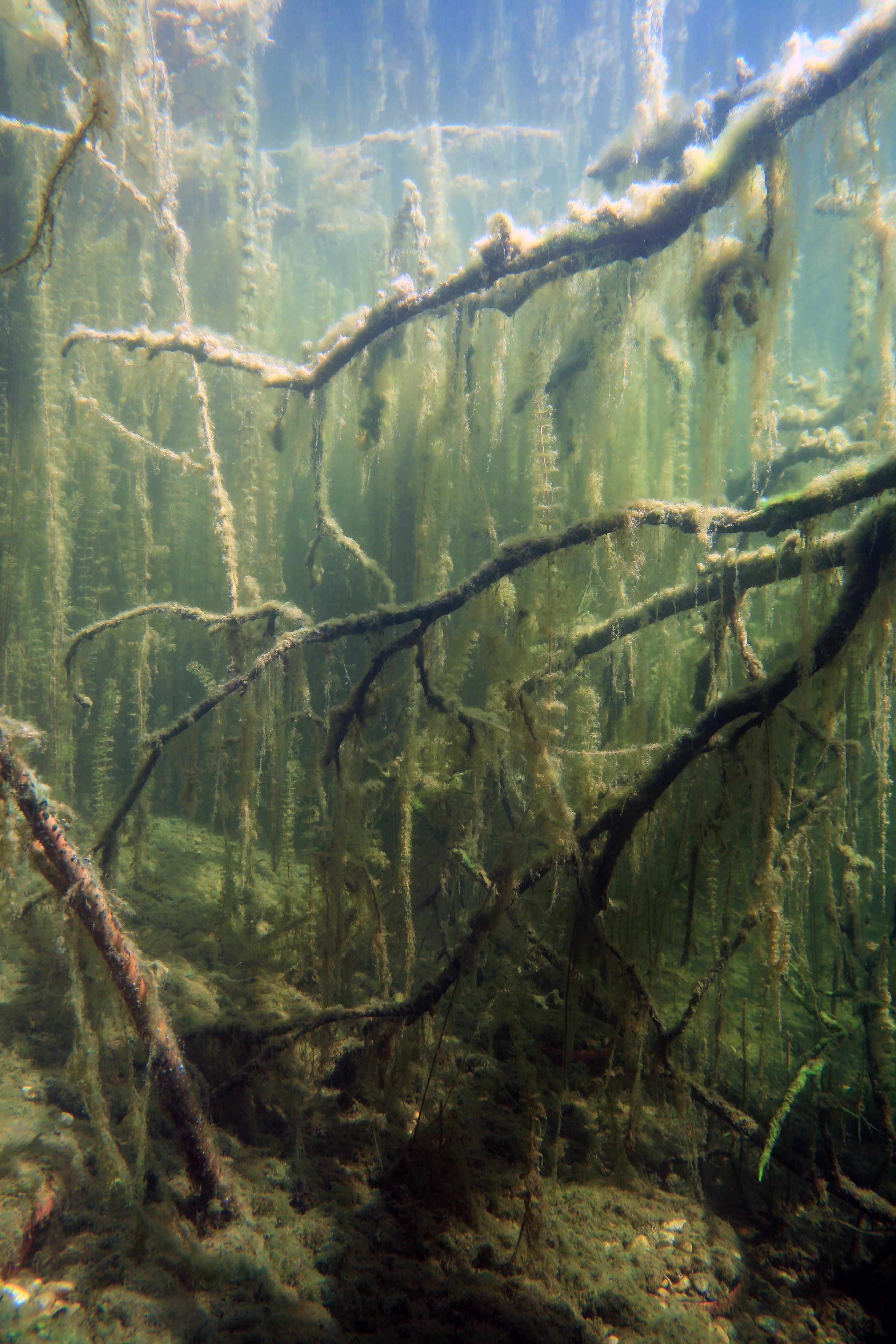 Lake at the information center of Danube-Auen National Park in castle Orth (Orth an der Donau, Austria). This file shows the National Park Donau-Auen in Austria.